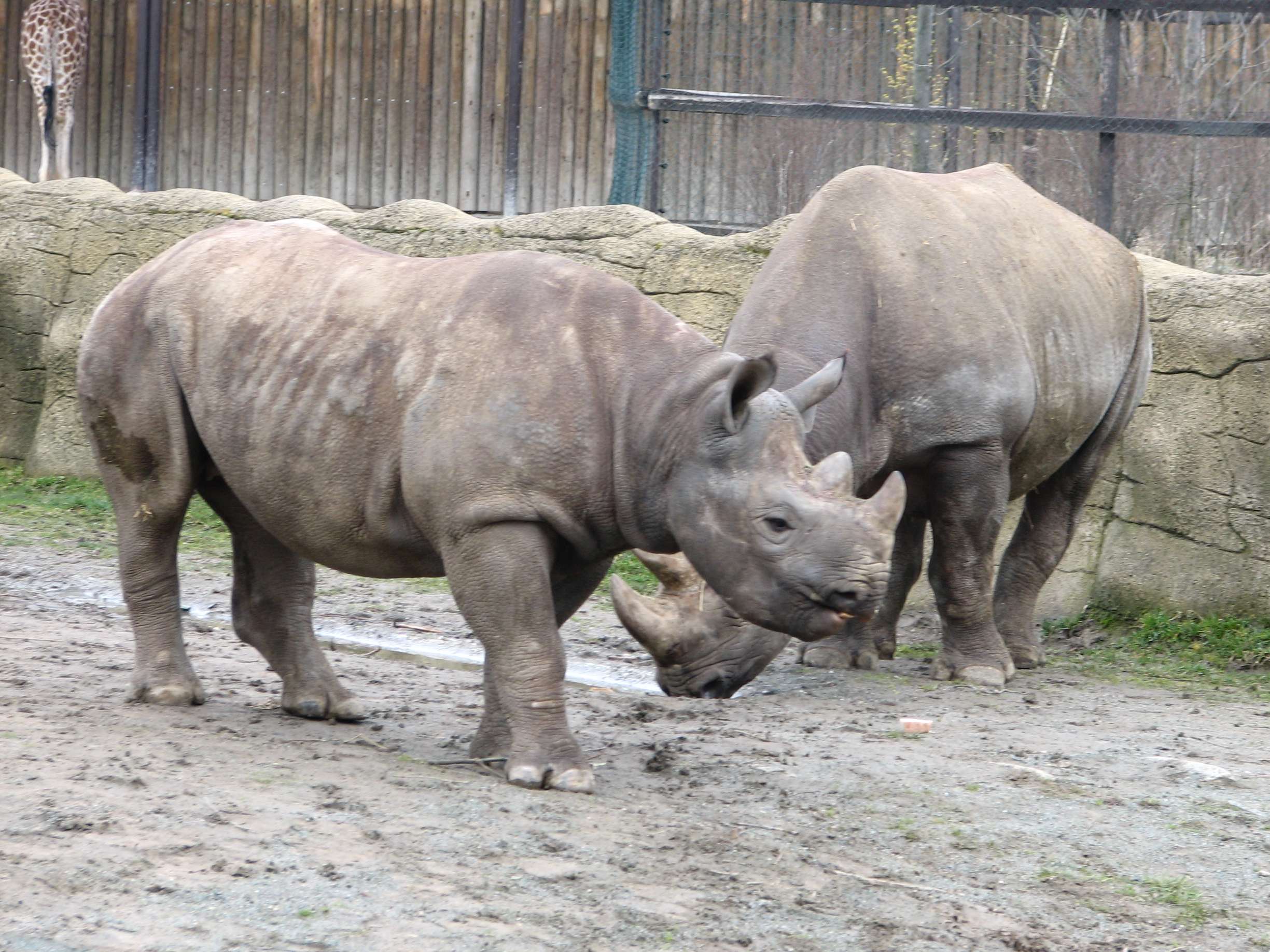 Black Rhino, ZOO Dvůr Králové, Czech Republic